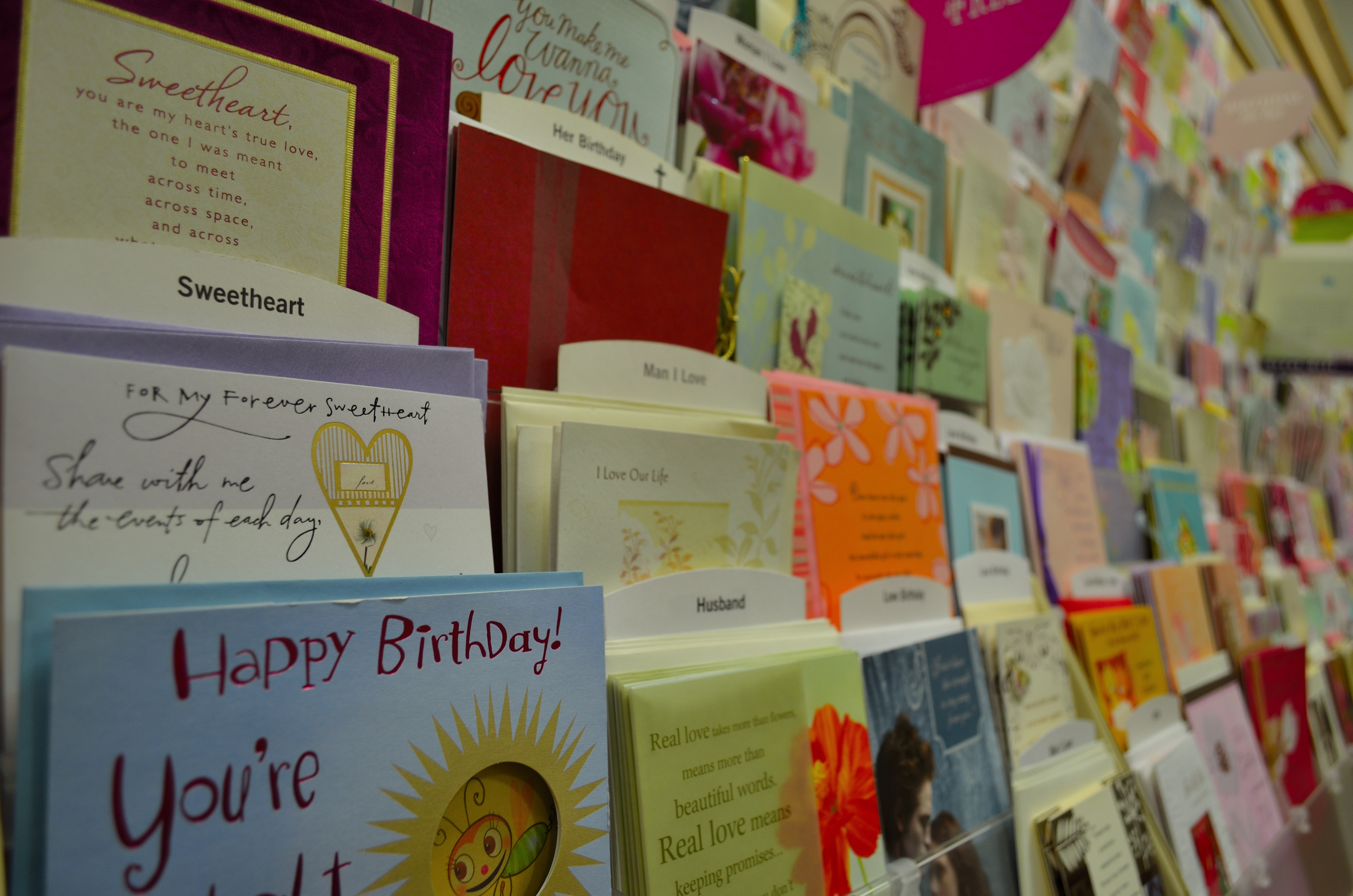 Birthday cards inside the Hallmark store at Hillcrest Mall